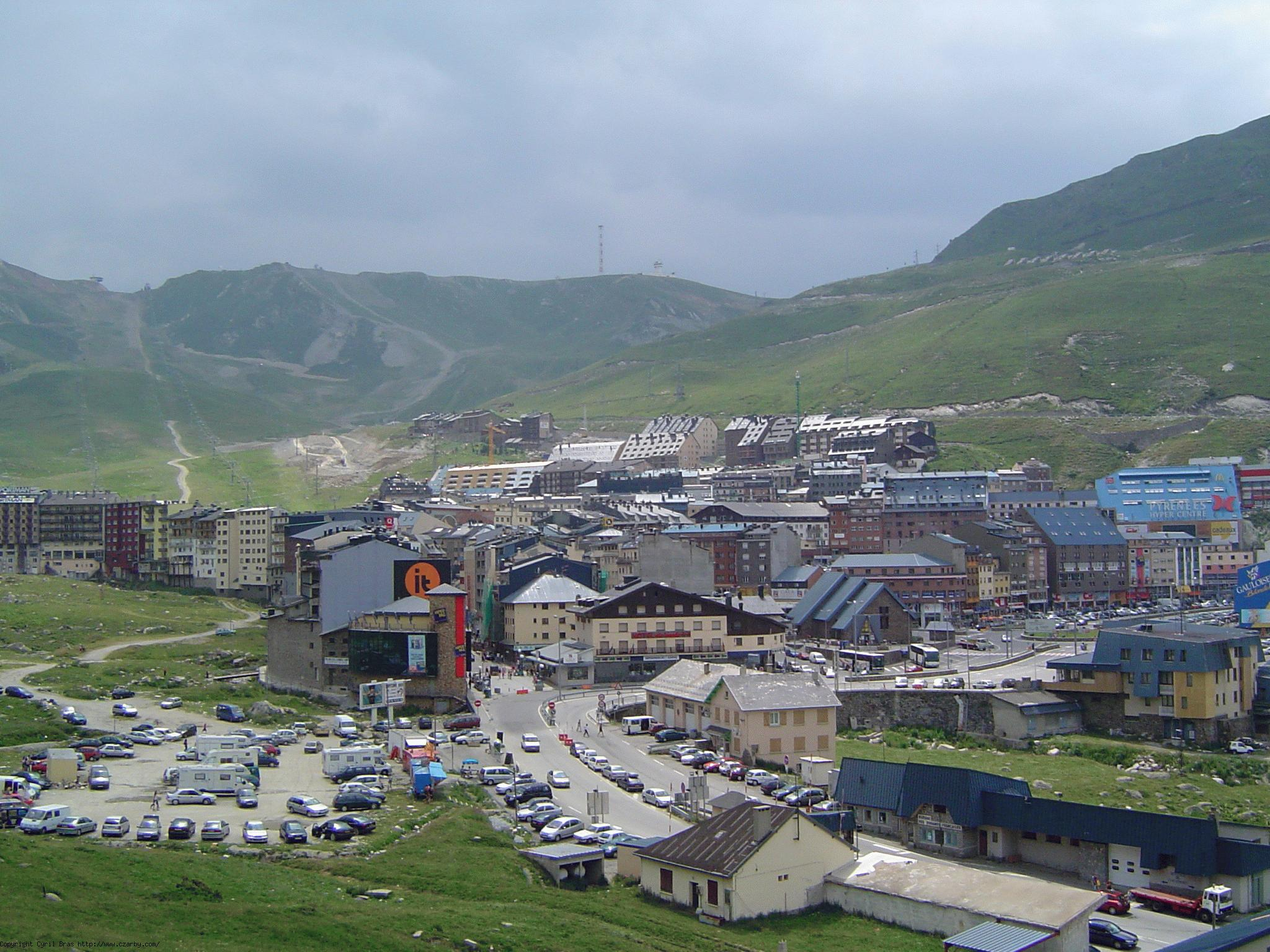 A view of Pas de la Casa, Andorra